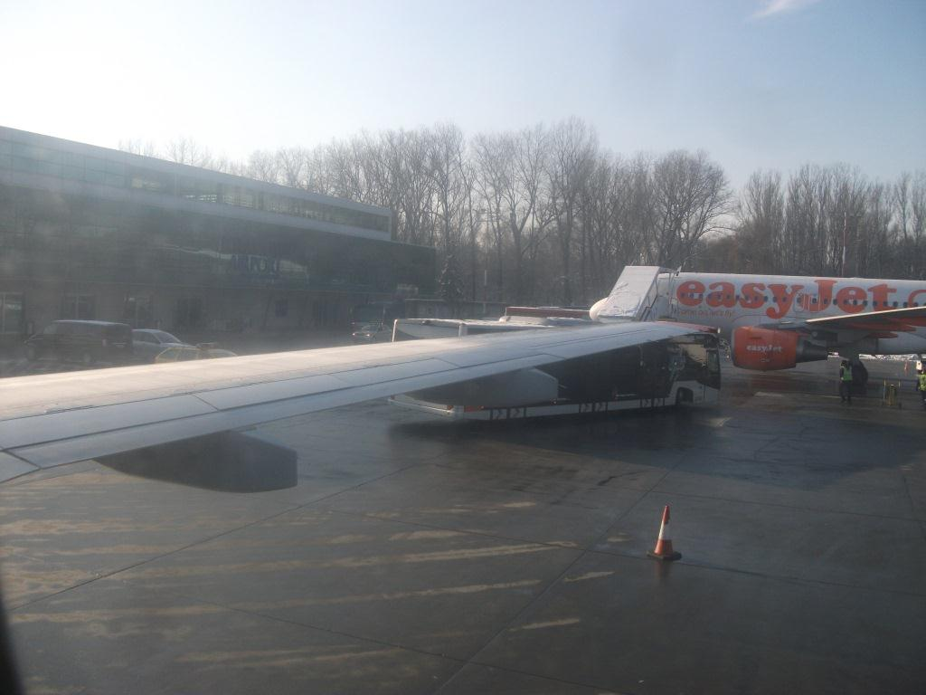 EasyJet plane